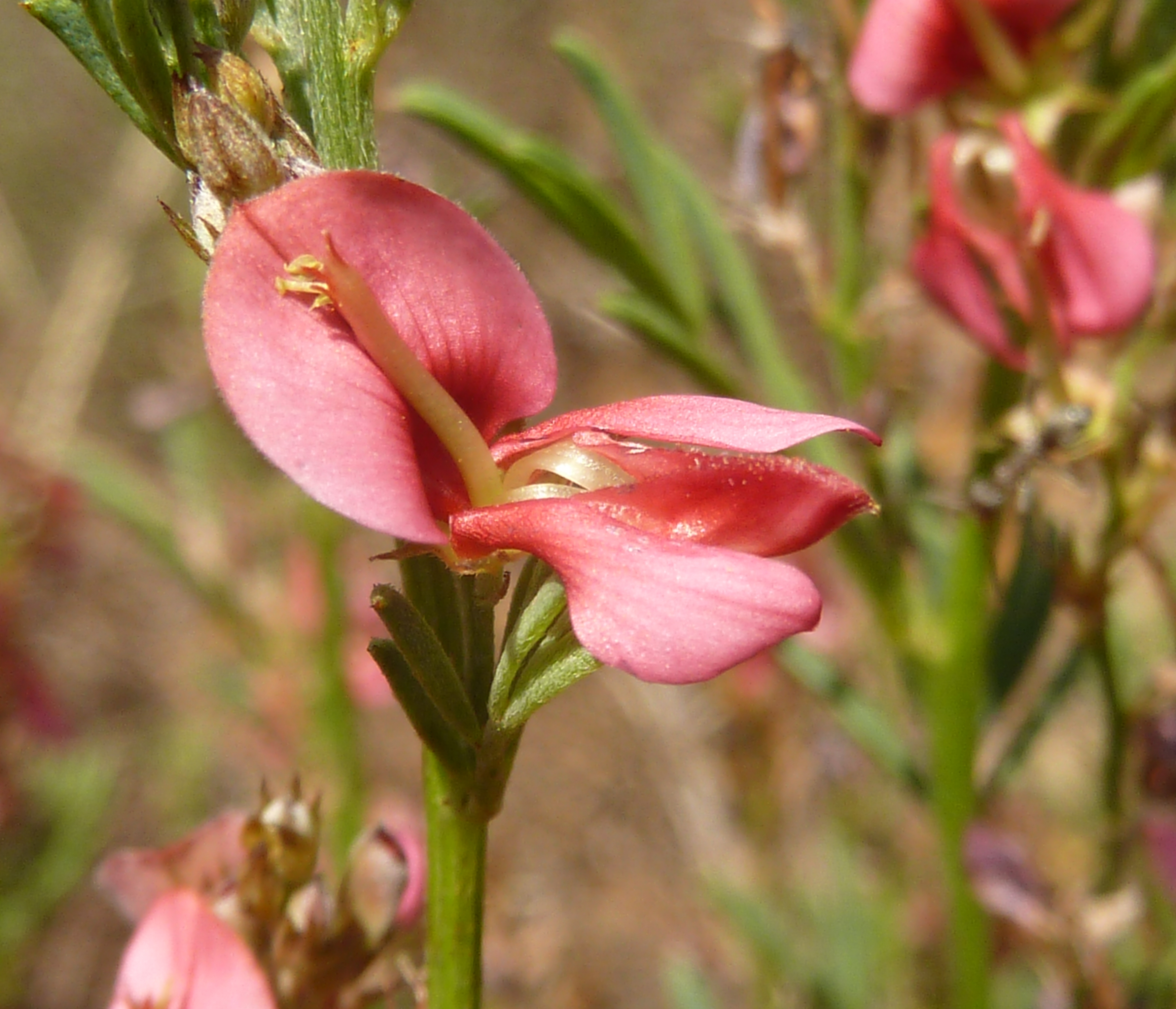 Flower of Indigofera hilaris in Faerie Glen Nature Reserve, Pretoria